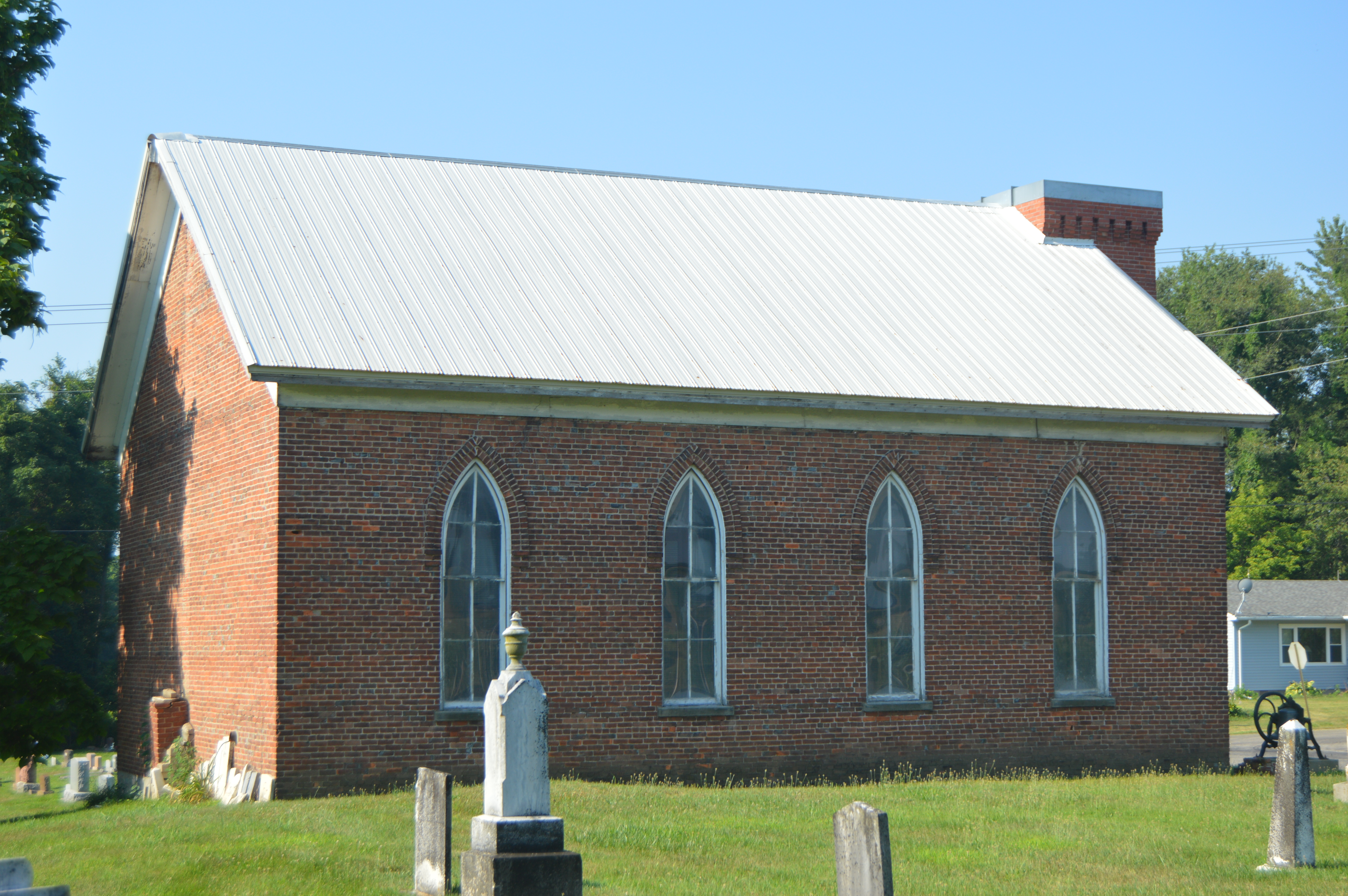 Northern side and rear of the former Hopewell Methodist Church, located at 5031 E300N in Lagro Township, Wabash County, Indiana, United States. Built in 1872, it is listed on the National Register of Historic Places.